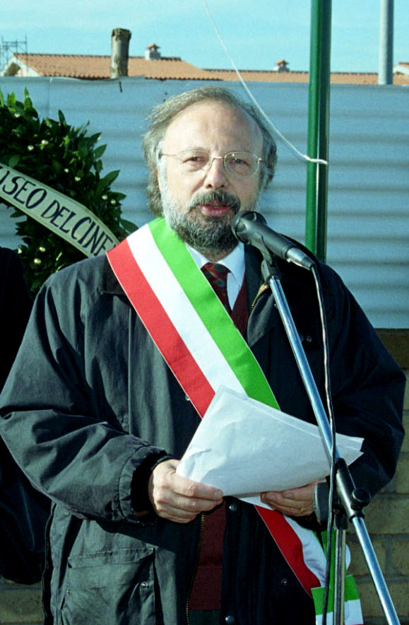 Music critic, essayist and politician Gianni Borgna (1947-2014) in Rome